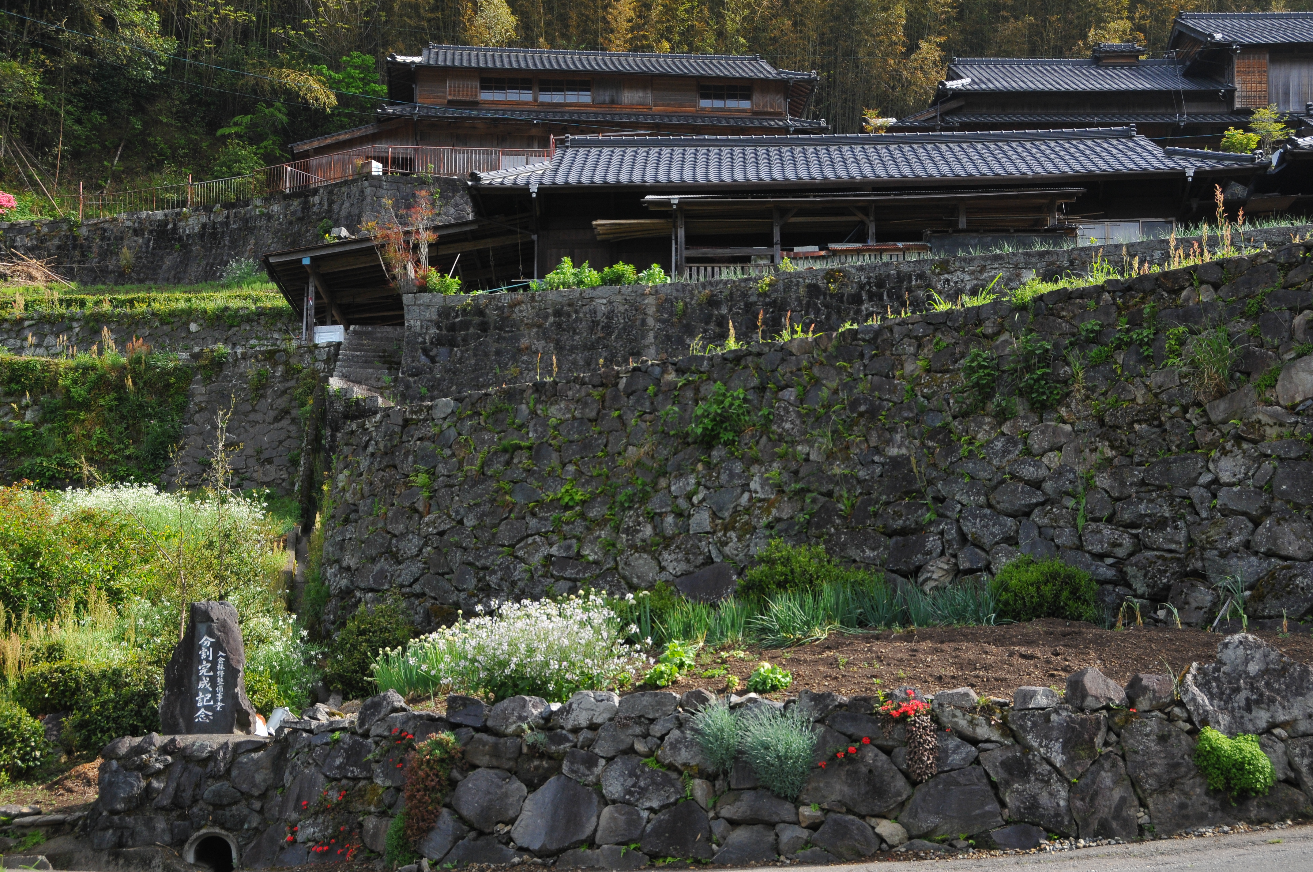 shiibamura miyazaki japan